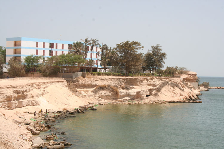 ndb hotel